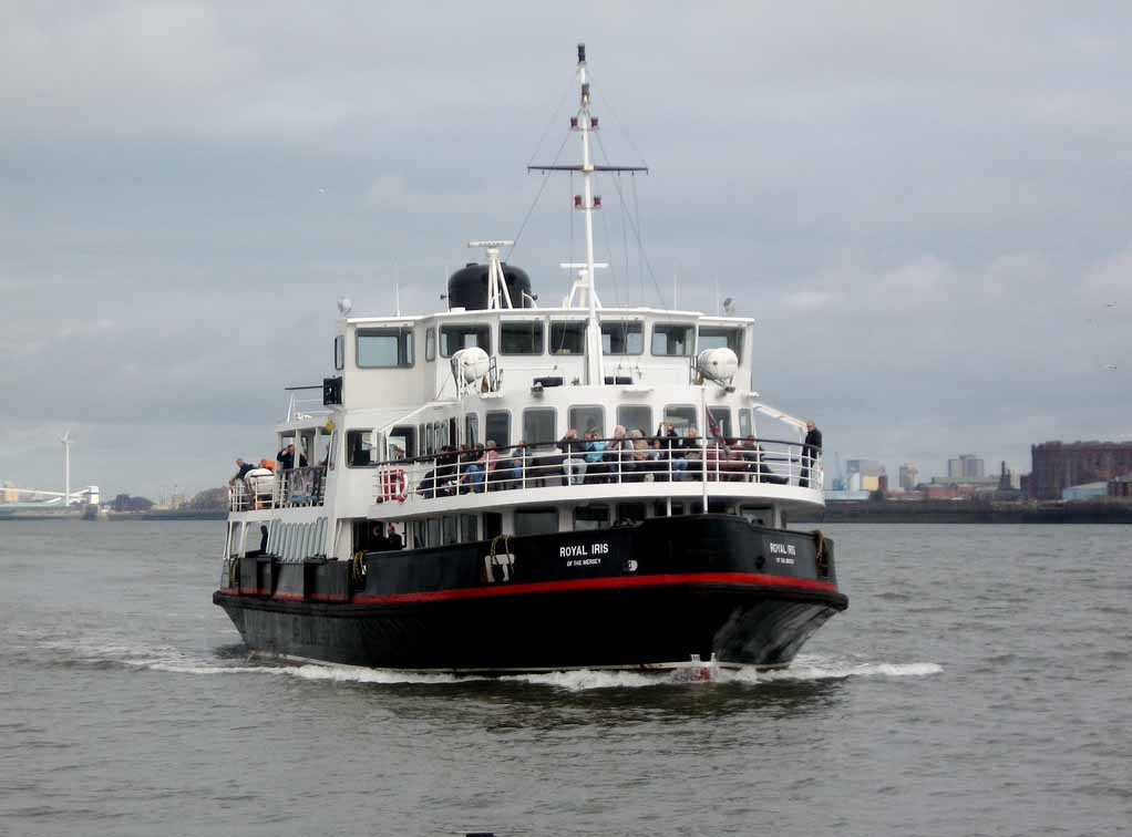 Royal Iris of the Mersey approaching Seacombe